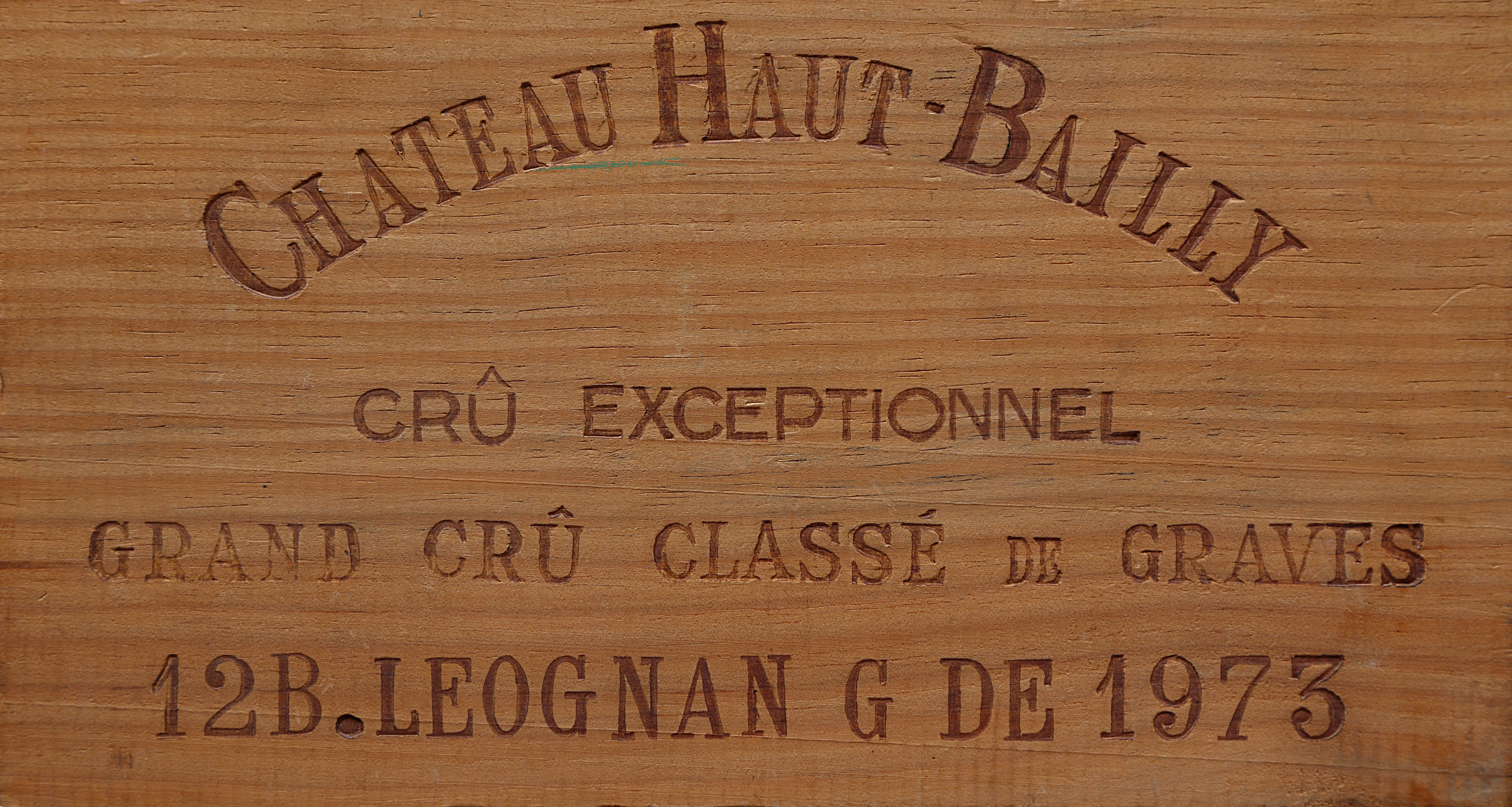 Part of a wooden crate of Château Haut-Bailly 1973, picture taken in Belgium.